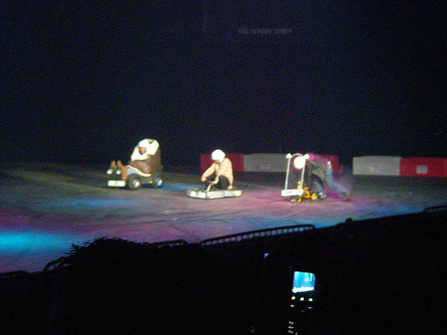 Top Gear Presenters in Home Made Small Cars